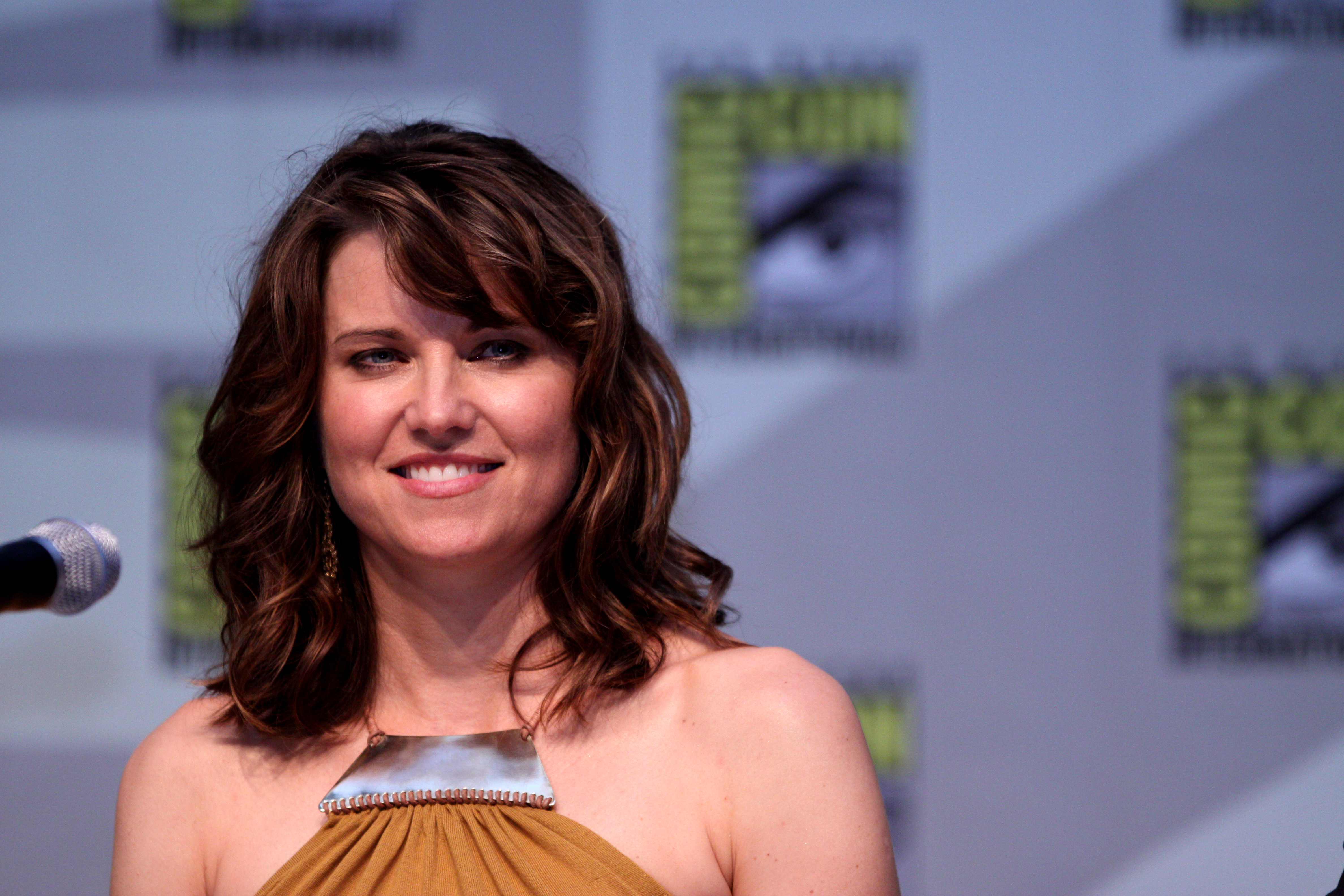 Actress Lucy Lawless on the Spartacus: Blood and Sand panel at the 2010 San Diego Comic Con in San Diego, California.